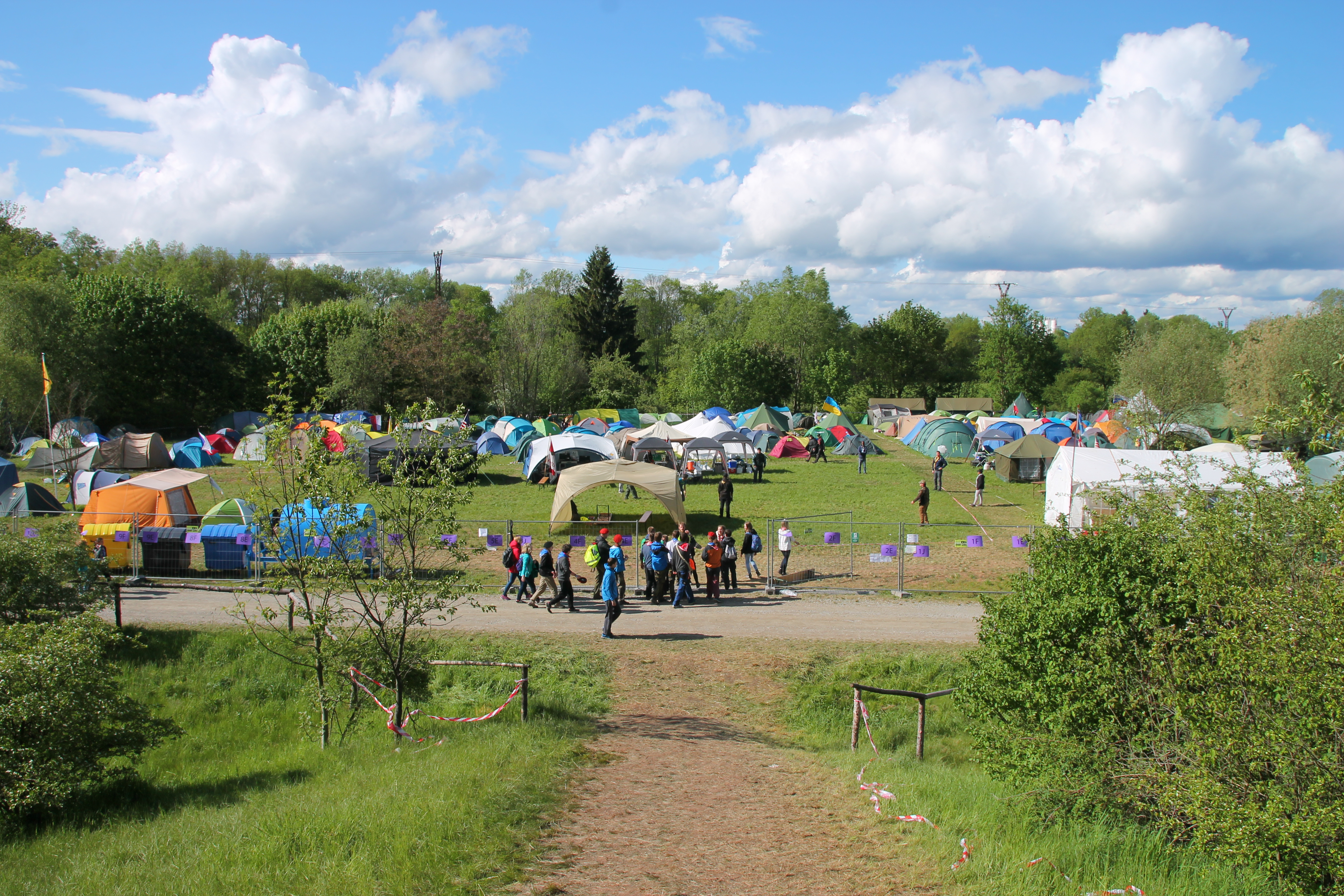 Intercamp 2016 (13.–16. 5. 2016), Josefov fortress, Jaroměře, Czech Republic, view of the campsite